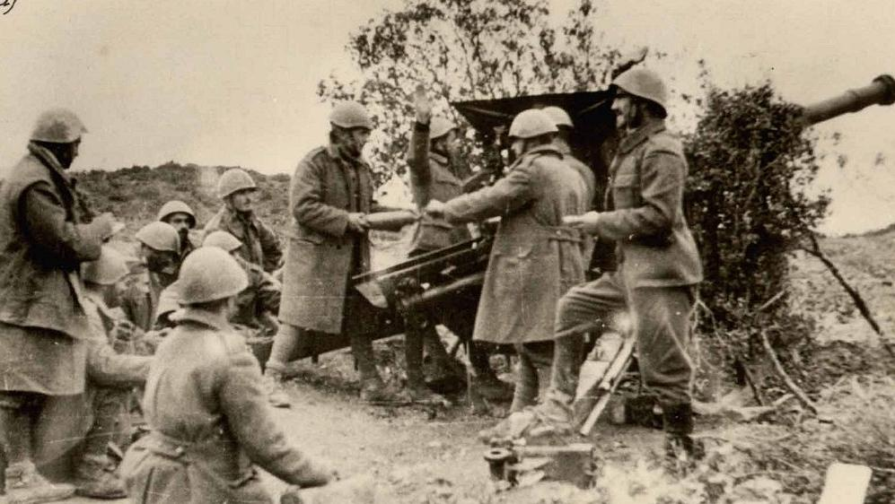 Greek artillery shelling in the Morava height, Greco-Italian War, November 1940